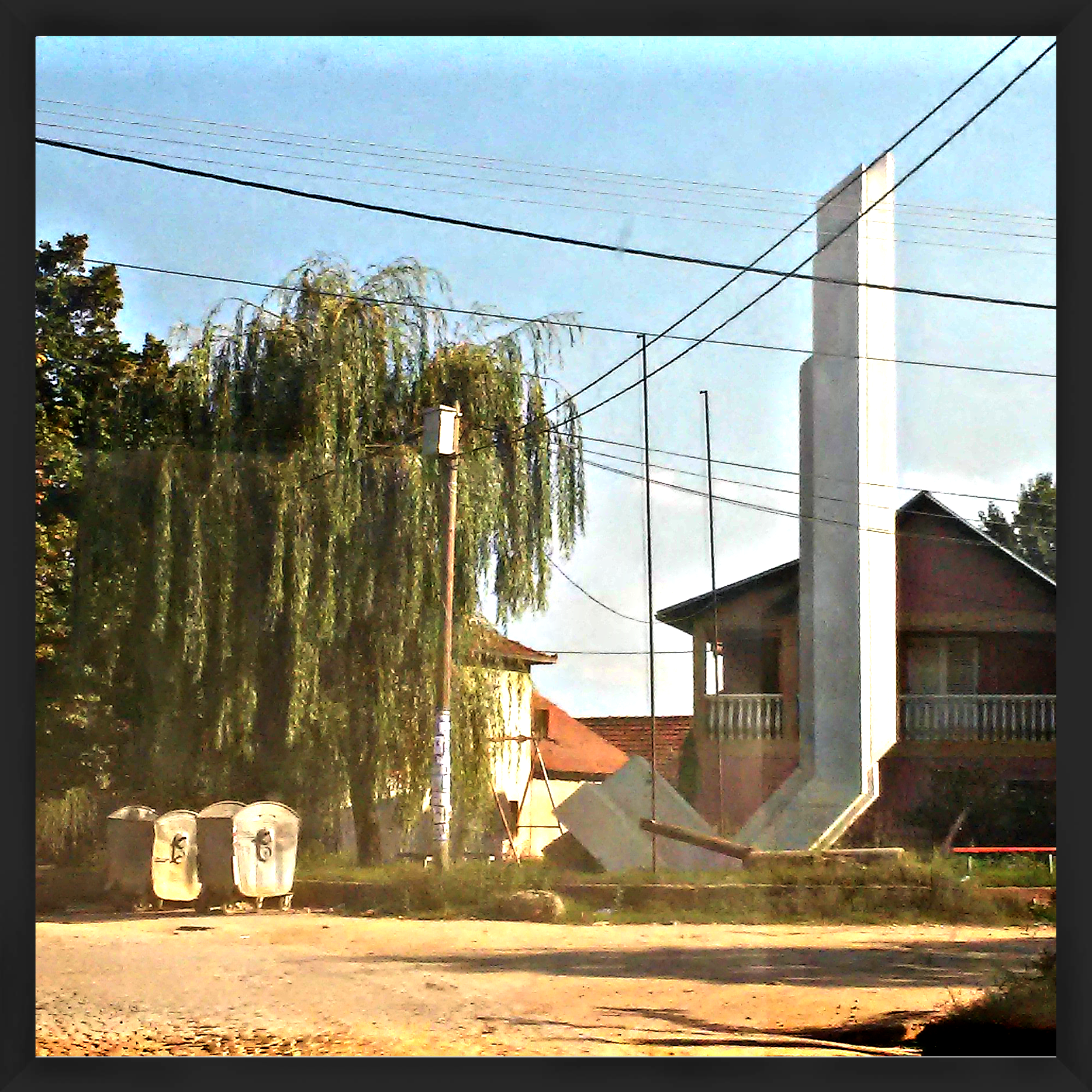 Vinarce Leskovac spomenik